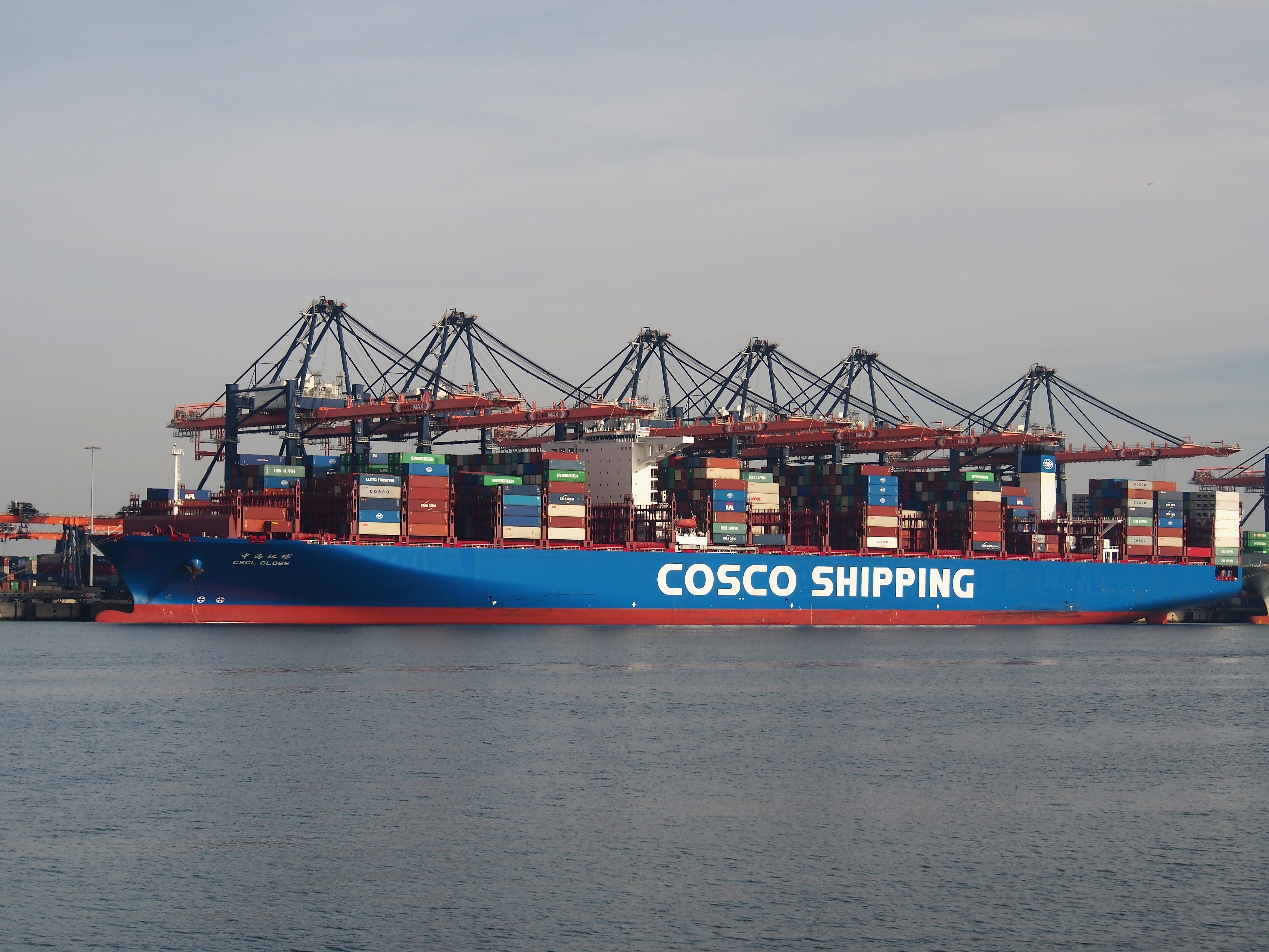 Photographed at the Port of Rotterdam, The Netherlands.